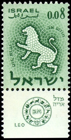 Zodiac I stamp - 0.08 Israeli lira - Sign of Leo, Month of Av